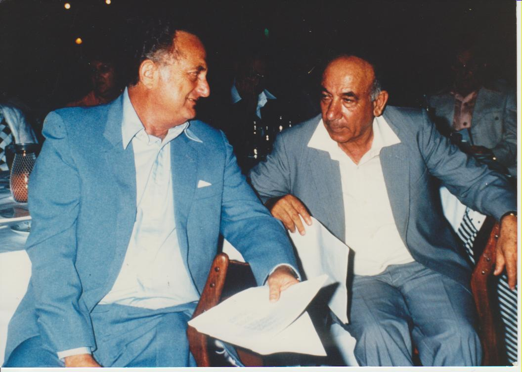 Prof. Brandes with Yigal Horowitz